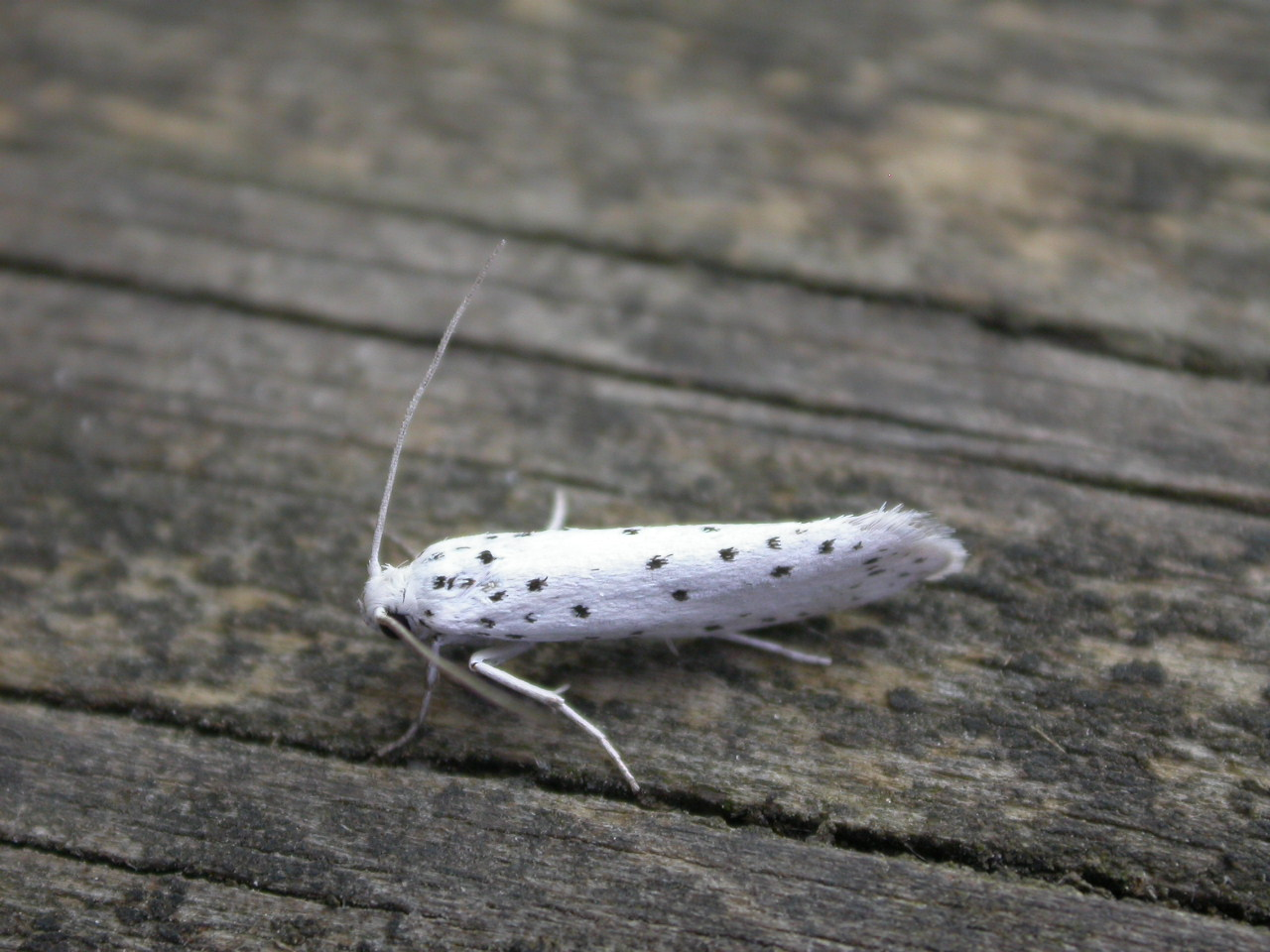 Yponomeuta cagnagella, to MV light, Hellerup, Denmark, 2 August 2002